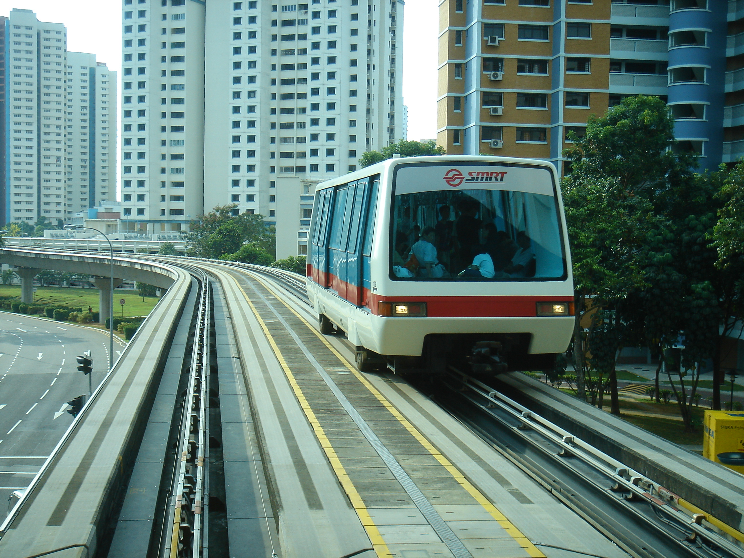 A CX-100 Car passing through on the BPLRT viaduct.